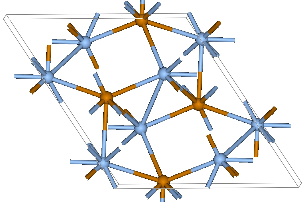 Ag2Te structure (hessite). Brown atoms are tellurium.